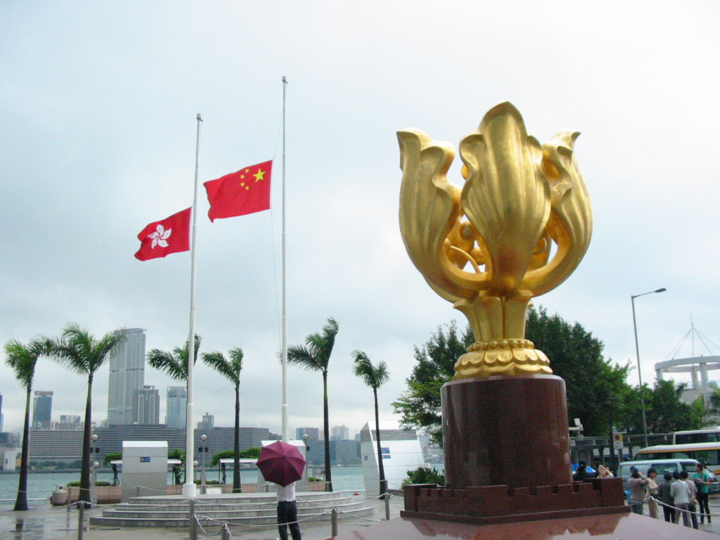 Flags of PRC and HKSAR in Golden Bauhinia Square flying at half-staff for mourning victims killed in the Sichuan Earthquake.